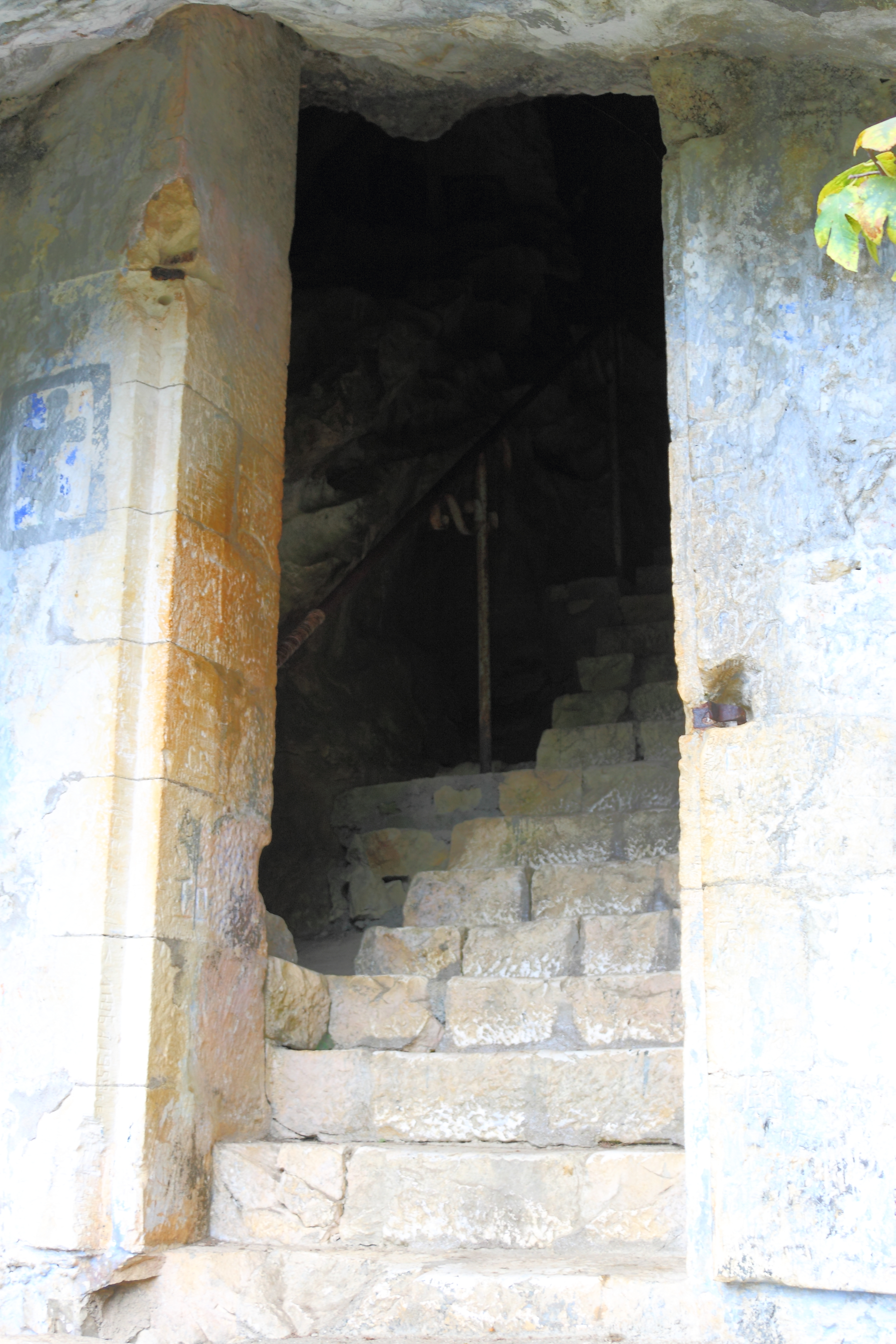 St. Simon the Zealot's (Simon Kananaios) cave in Abkhazia